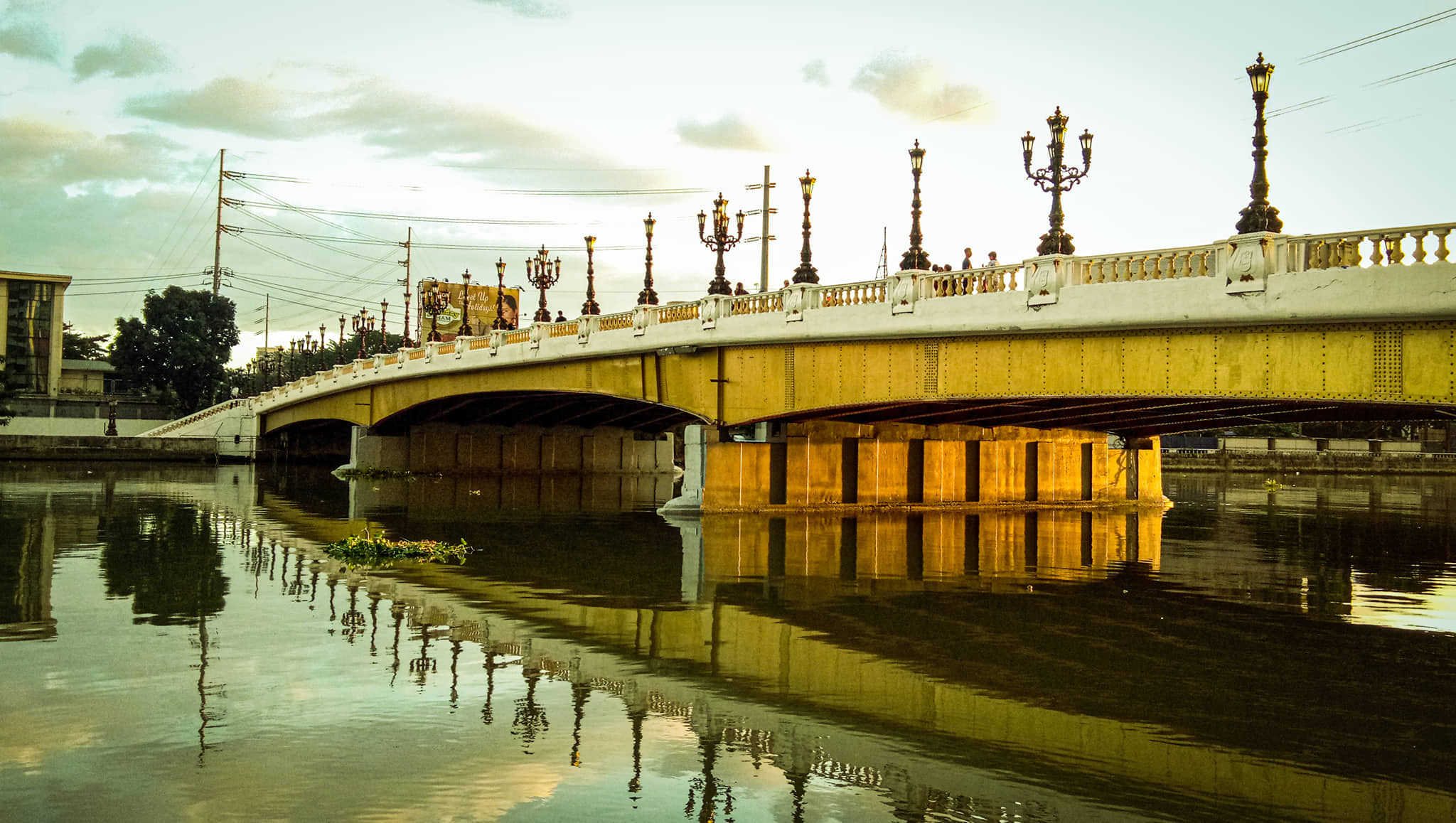 Jones Bridge as seen from the river banks of Pasig River